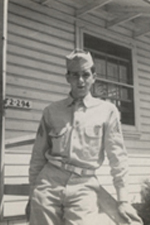 William J. "Wild Bill" Guarnere in boot camp